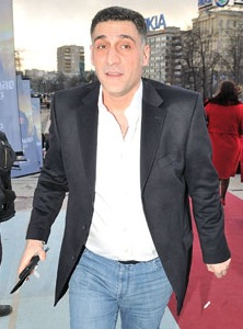 Russian director Tigran Keosayan, April 21, 2010.